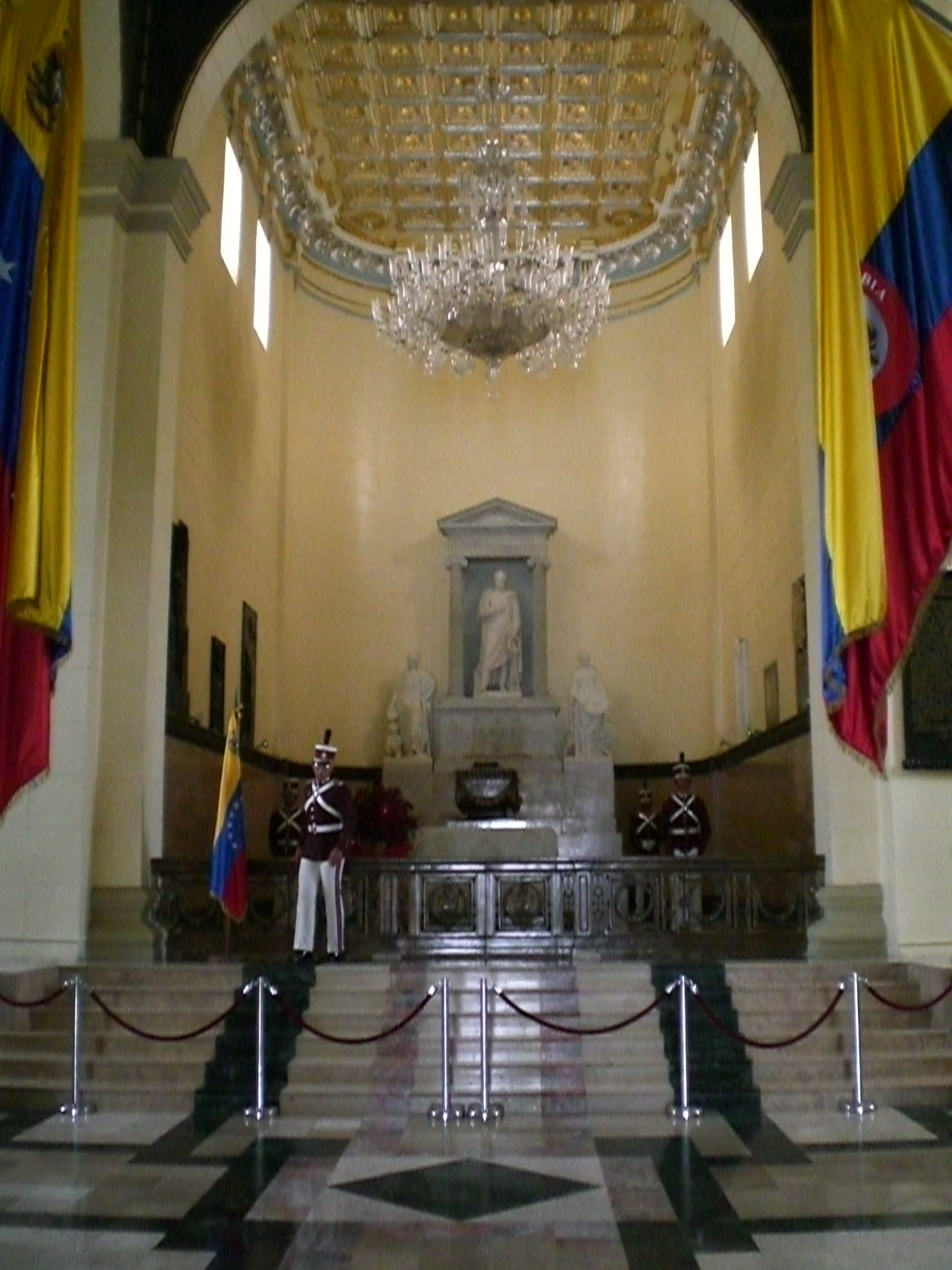 Tomb of Simón Bolívar at the National Pantheon of Venezuela.